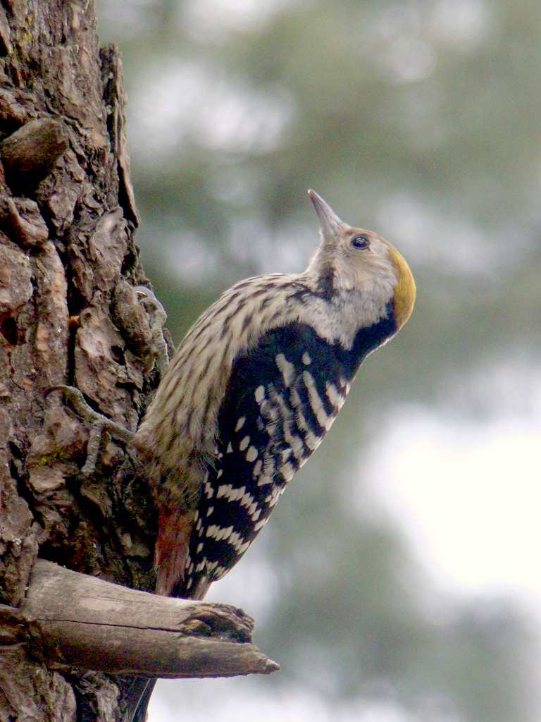 Female Brown-fronted Woodpecker